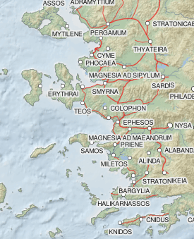 Ionia was a region in western Anatolia that was colonised by the Greeks. It is here that philosophy arose. The first presocratics Thales, Anaximander and Anaximenes were citizens of Milete (Milesian school). Some later presocratics like Heraclitus were from nearby places. Source map